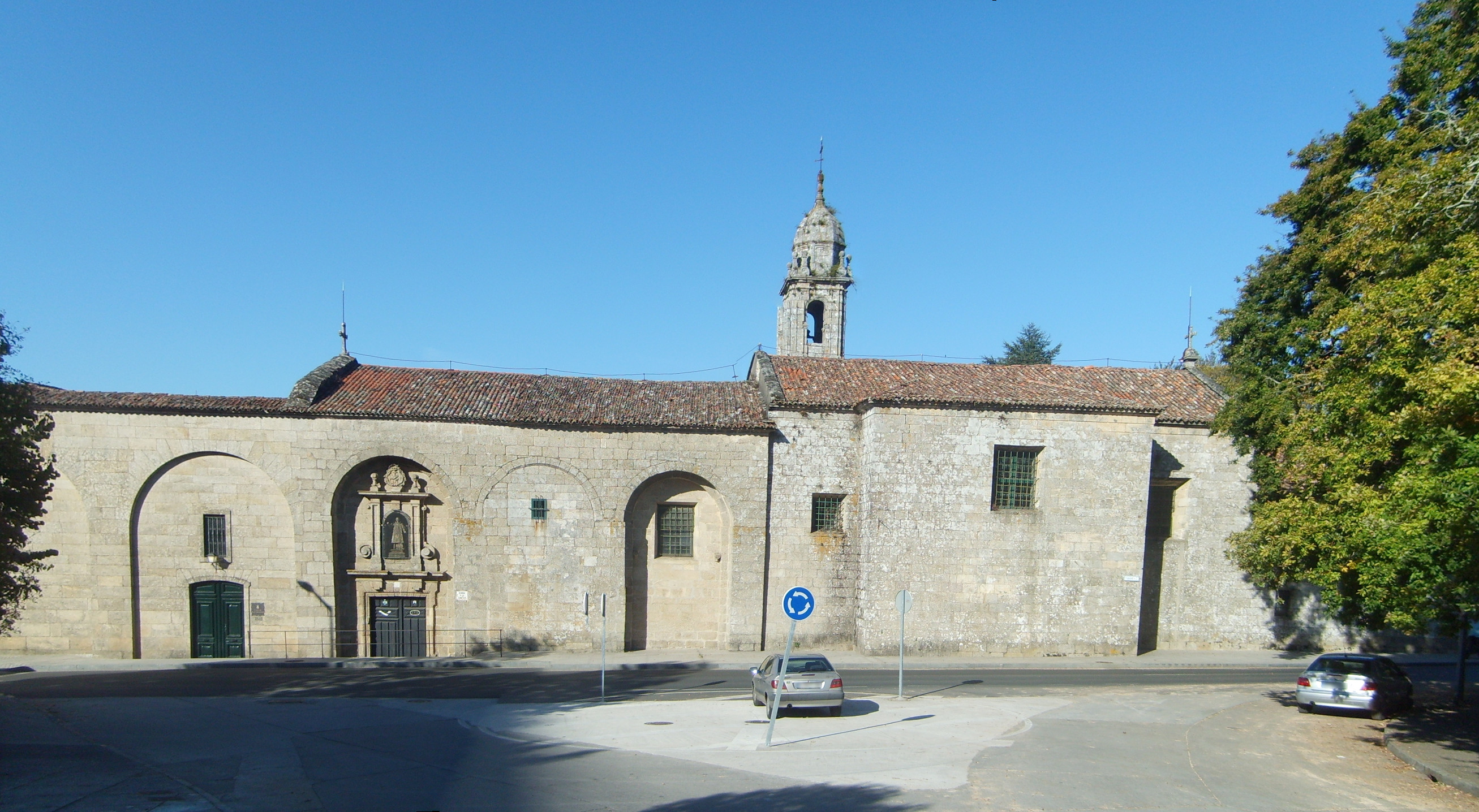 Pazo of San Lorenzo, in Santiago de Compostela, Galicia, Spain.